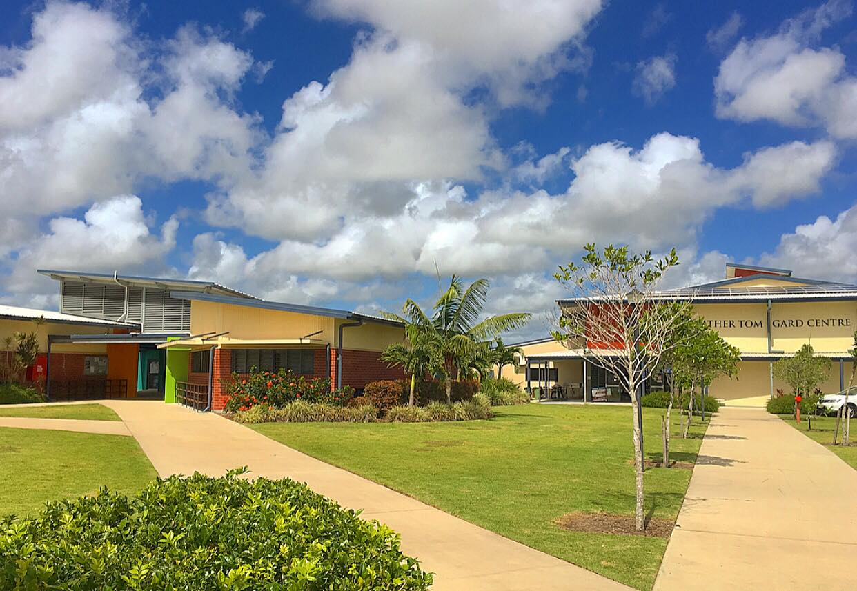 Saint Catherines Catholic School in Proserpine, Queensland.